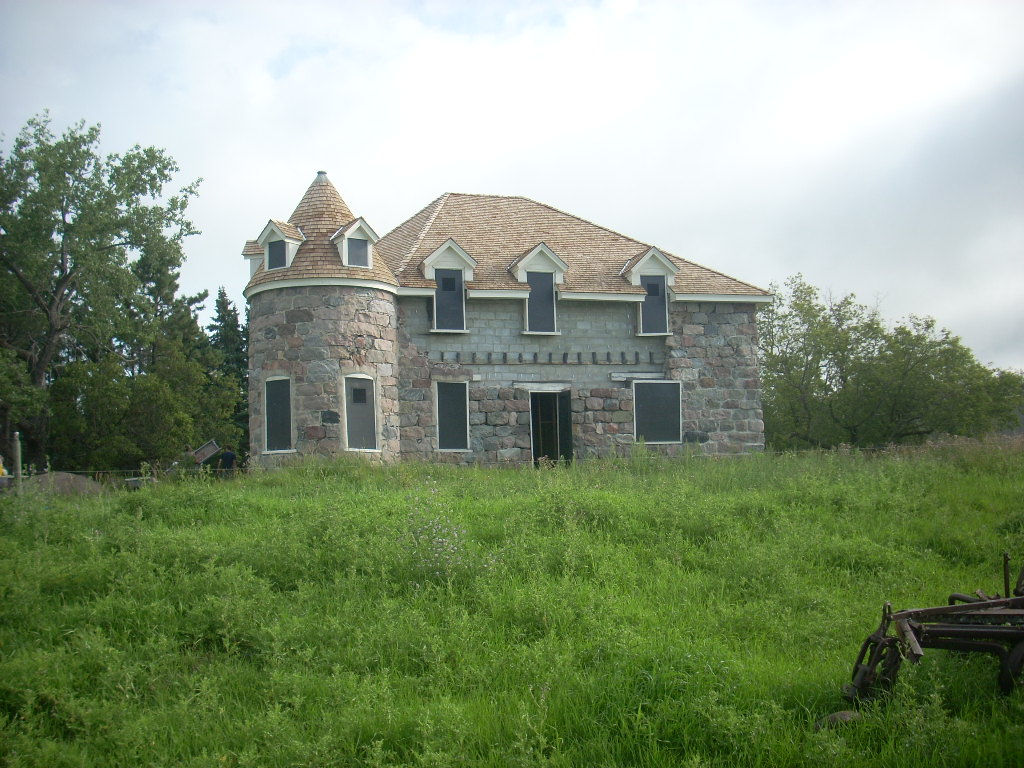 South elevation of Coghlan Castle, a property listed on the National Register of Historic Places located in Rolette County ND.